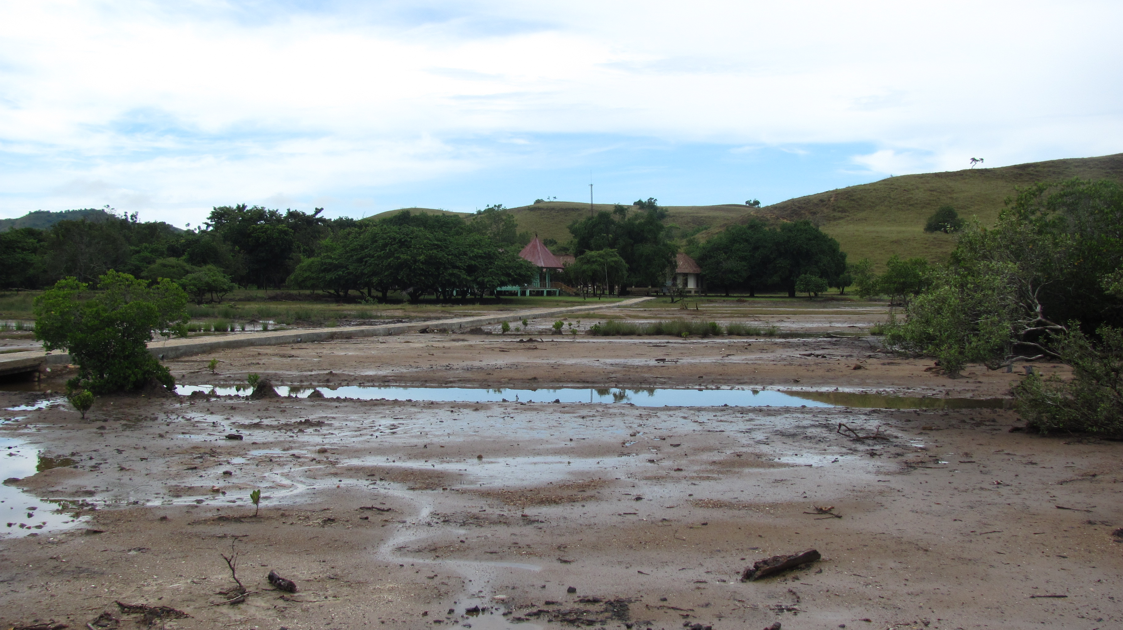 Landscape at Loh Buaya bay, Rinca, Indonesia